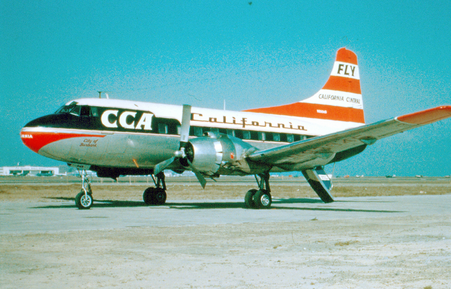 Martin 2-0-2 N93045 in the beautiful colors of California Central Airlines at San Francisco on November 8, 1951. Each one of their 2-0-2s had a city name, this one being City of Burbank.